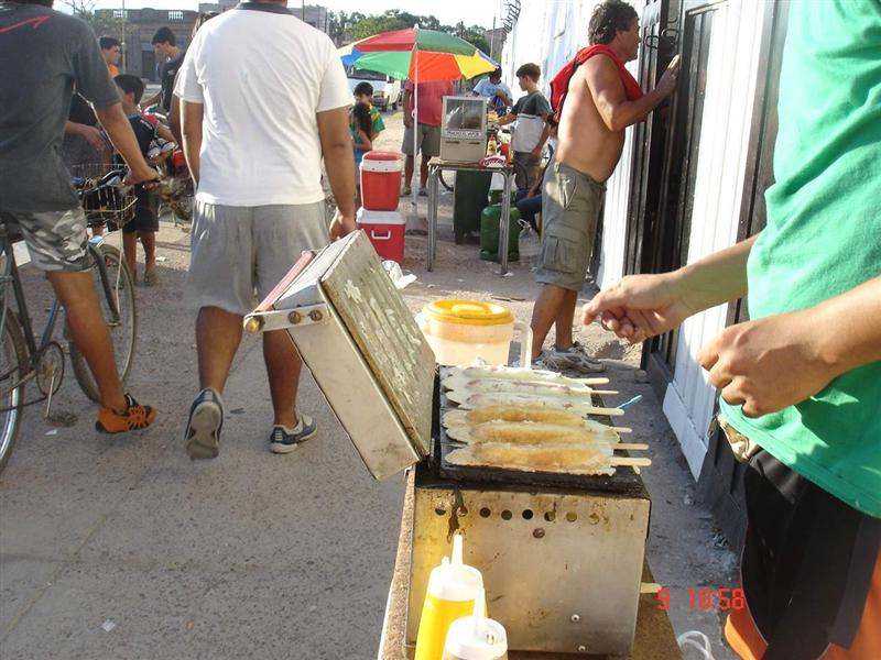 Panchuker Photo, taken by P.W.